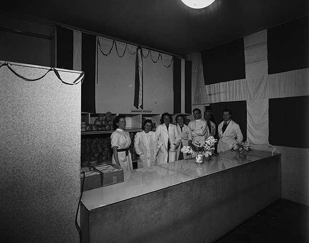 Participants in the Danish humanitarian aid to Norway during World War II.